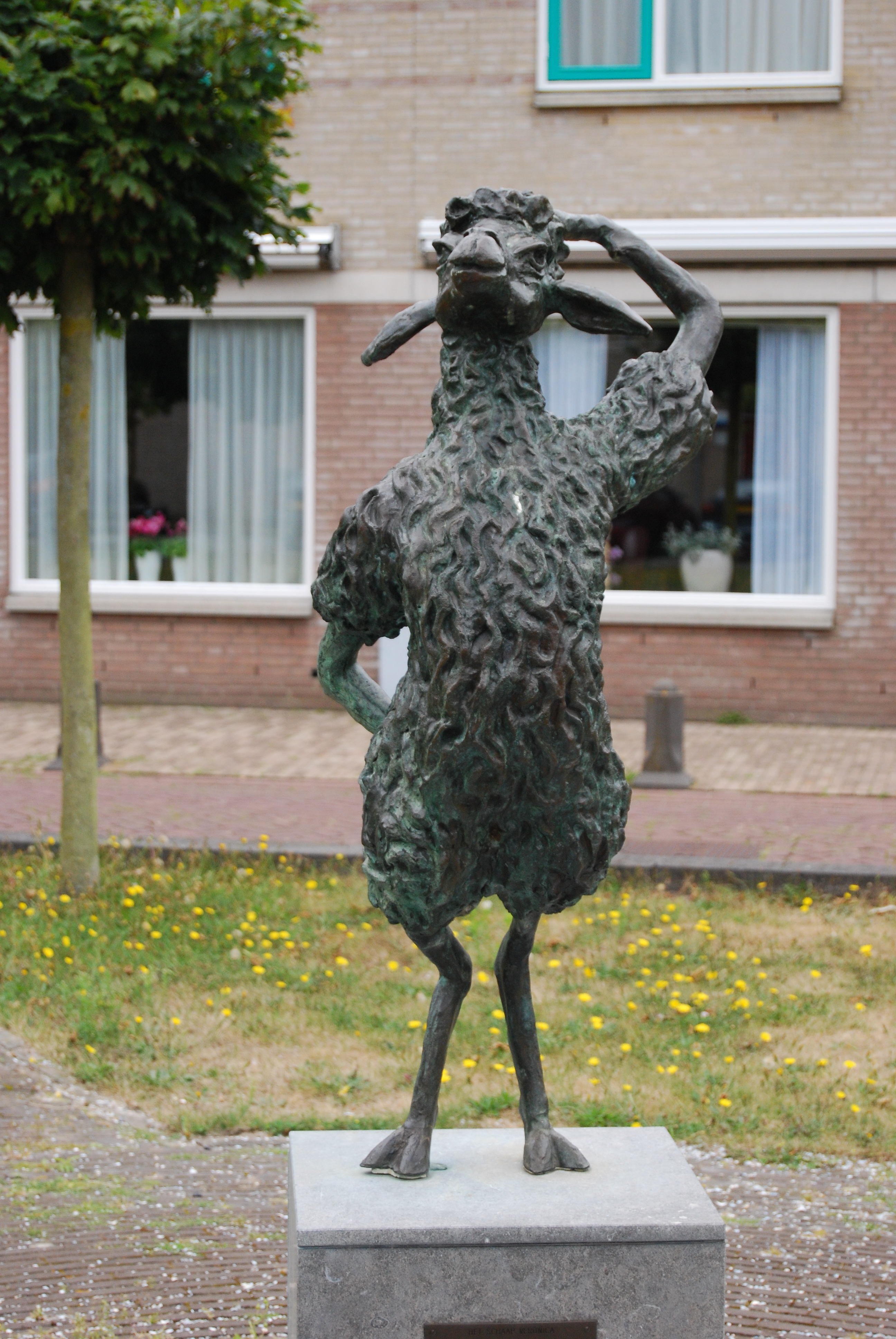 Het Schaap Veronica by Frank Rosen. Location: Egmond aan den Hoef, The Netherlands (Hanswijk). 'Veronica' is a fictitious sheep in the poetry of Annie M.G. Schmidt, a Dutch author of verse and prose. The sculpture is in honour of Willem Bijmoer, an illustrator of the poetry about Het Schaap Veronica